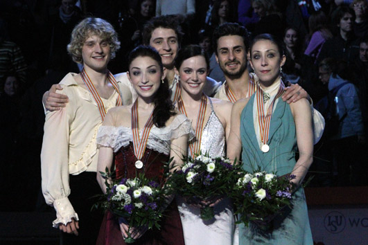 2010 World Figure Skating Championships - Charlie White, Meryl Davis, Scott Moir, Tessa Virtue, Massimo Scali and Federica Faiella